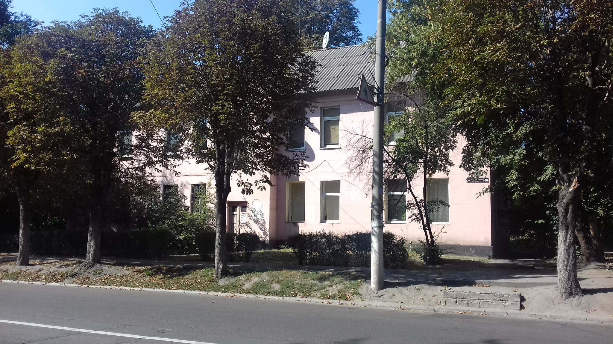 The house in which the 1929 - 1936 Brezhnev lived